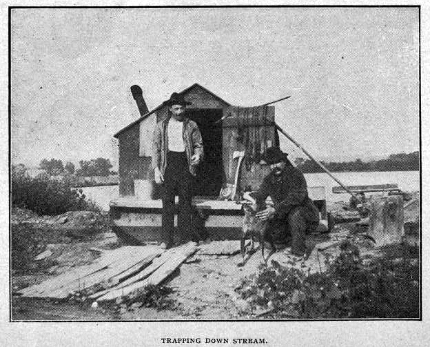 Old photo of trapping camp.